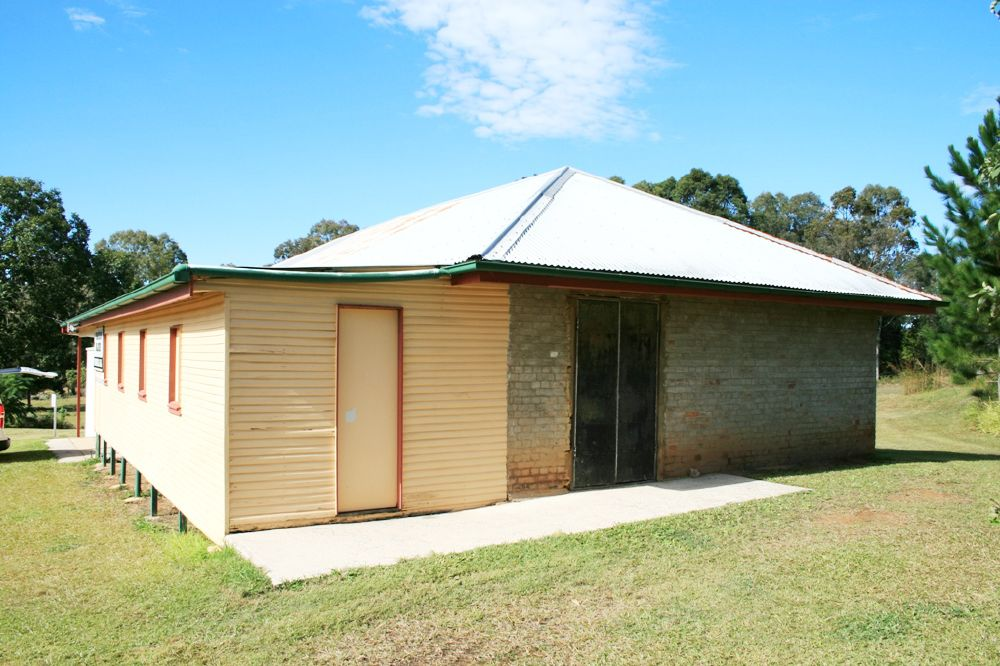 An image of the former Traveston Powder Magazine incorporated in Traveston Soldiers' Memorial Hall. 2011. This photo comes from the Queensland Government website and as such is licensed under a "Creative Commons Attribution 3.0 Australia (CC BY) licence" as detailed here - . I have confirmed its release via email.